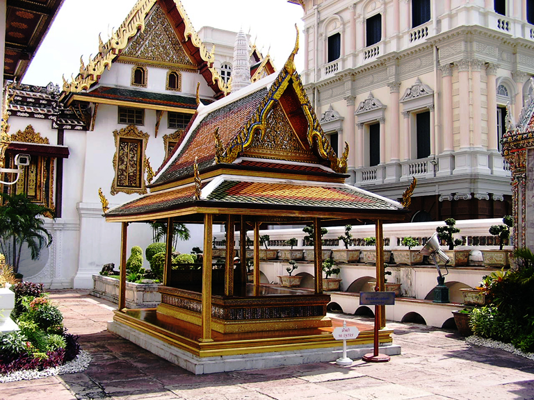 Sanam Chan Residential hall, Grand Palace, Bangkok, Thailand